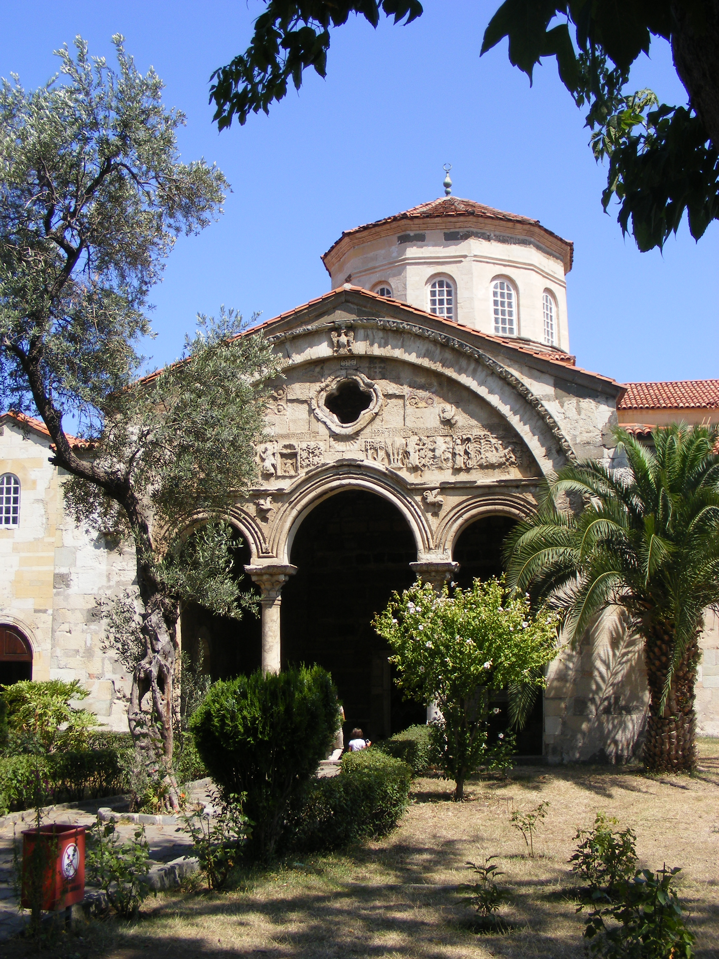 View of Hagia Sophia, Trabzon